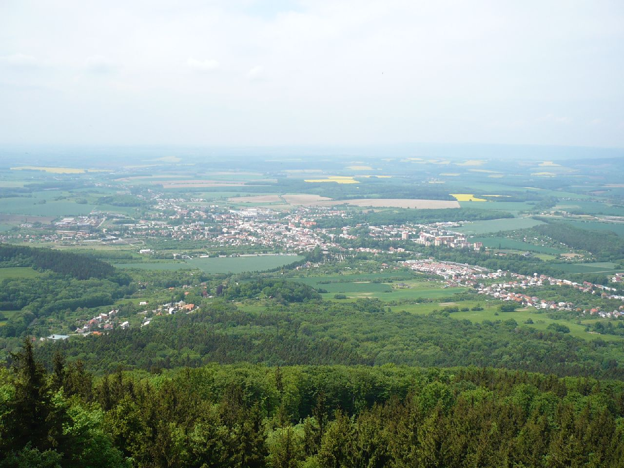 Hostyn - observation tower, look toward town Bystrice pod Hostynem